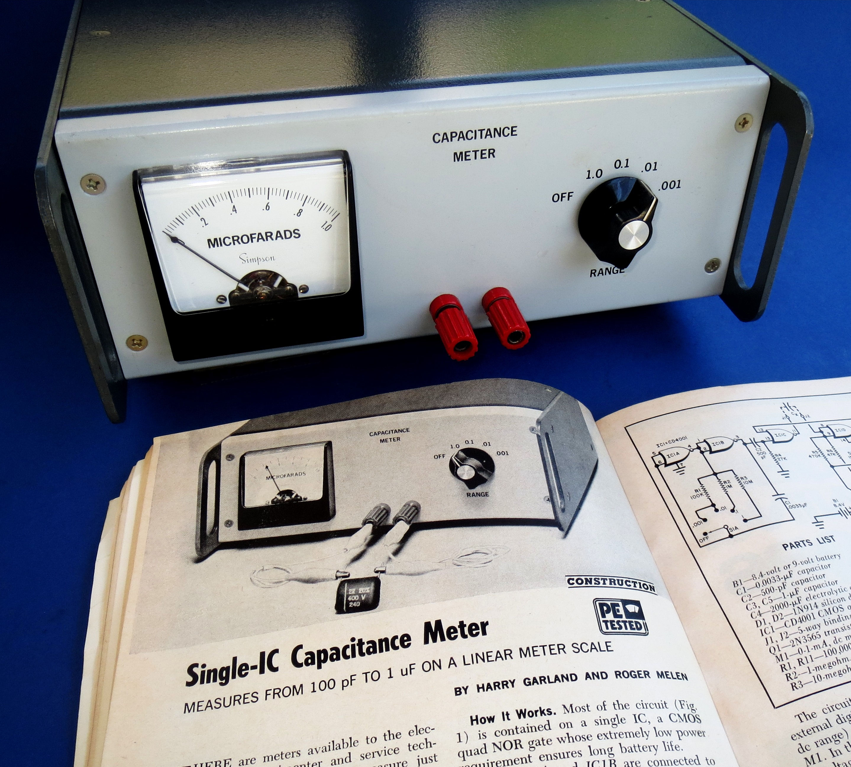 Single-IC Capacitance Meter developed by Harry Garland and Roger Melen as it appeared in the February 1974 issue of Popular Electronics magazine. Harry Garland and Roger Melen went on to found Cromemco.